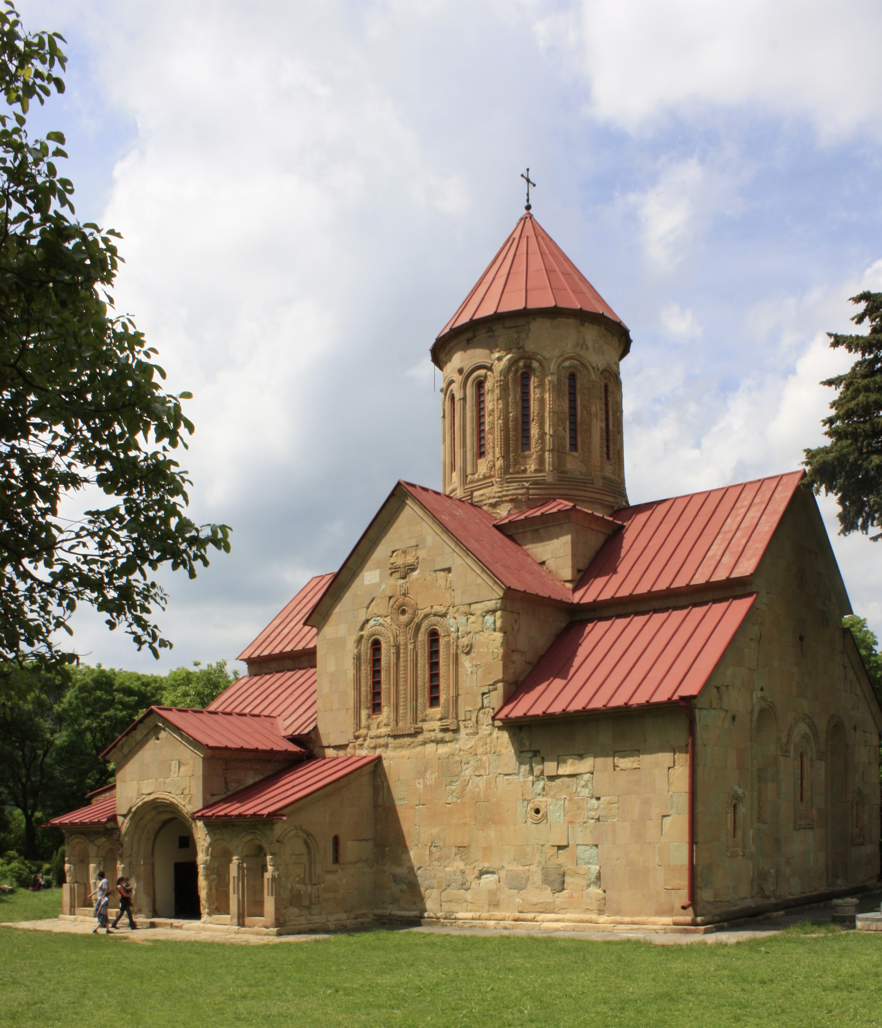 The view of Betania monastery, Georgia